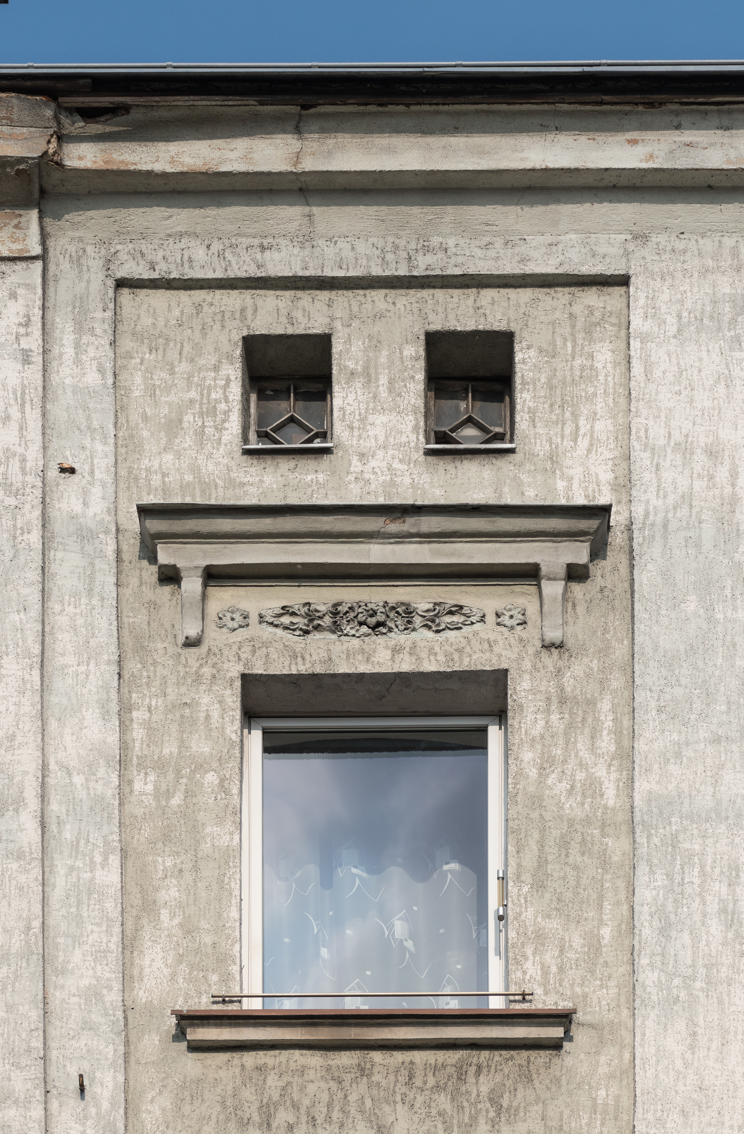 25 Piastów Street in Nowa Ruda